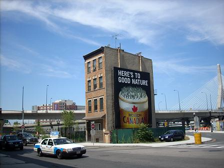 One of the few remaining buildings from the immigrant neighborhood of West End Boston. This building survived the Urban renewal of the late 1950s. Picture taken by Sbacle in July 2007. To be used in the West End, Boston, Massachusetts article